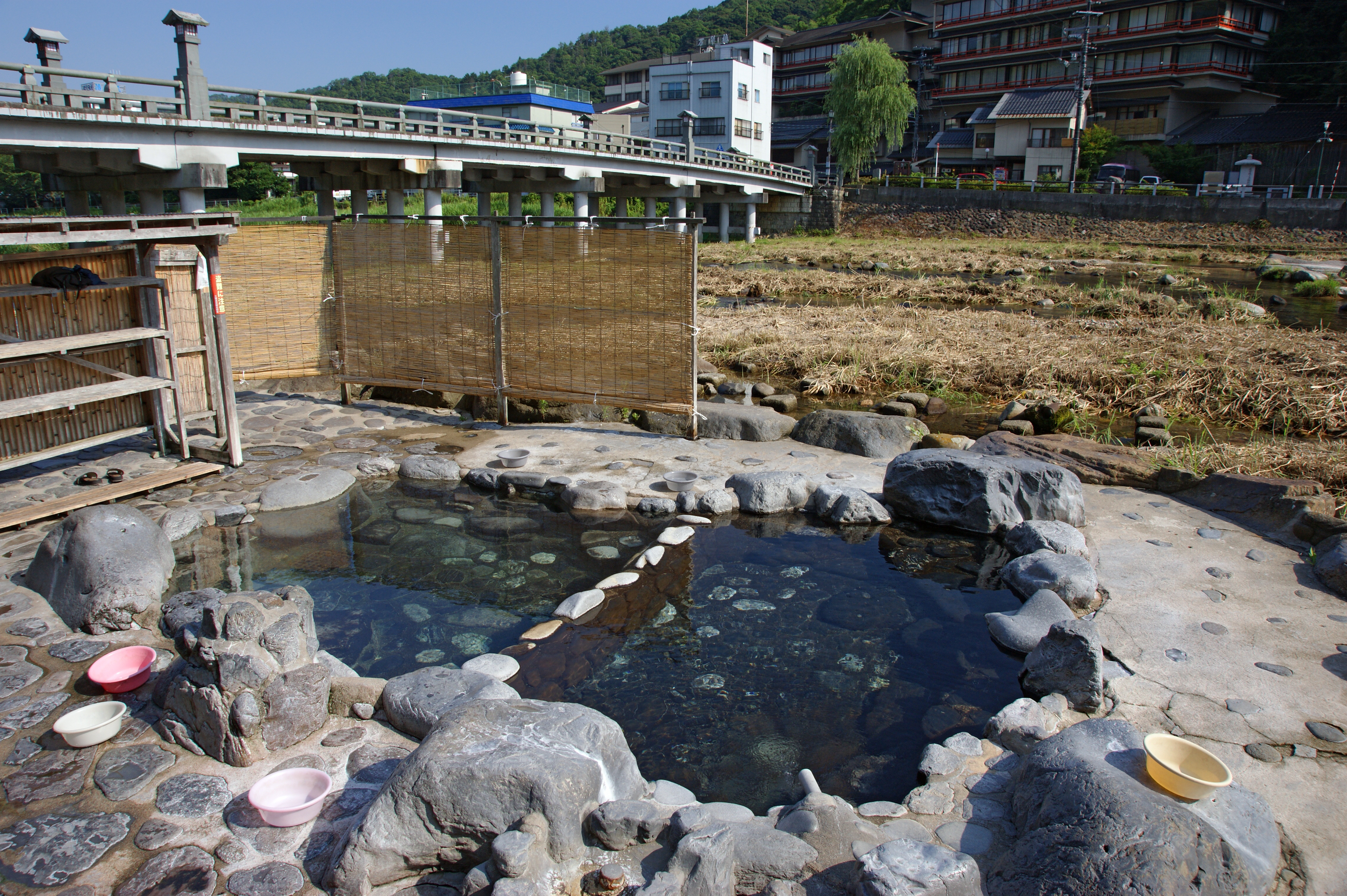 Misasa Onsen in Misasa, Tottori prefecture, Japan